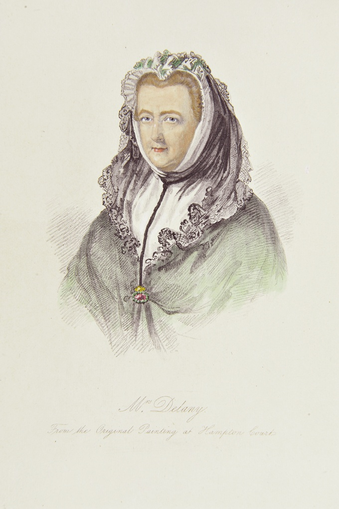 Mrs. Delany. From the Original Painting at Hampton Court.